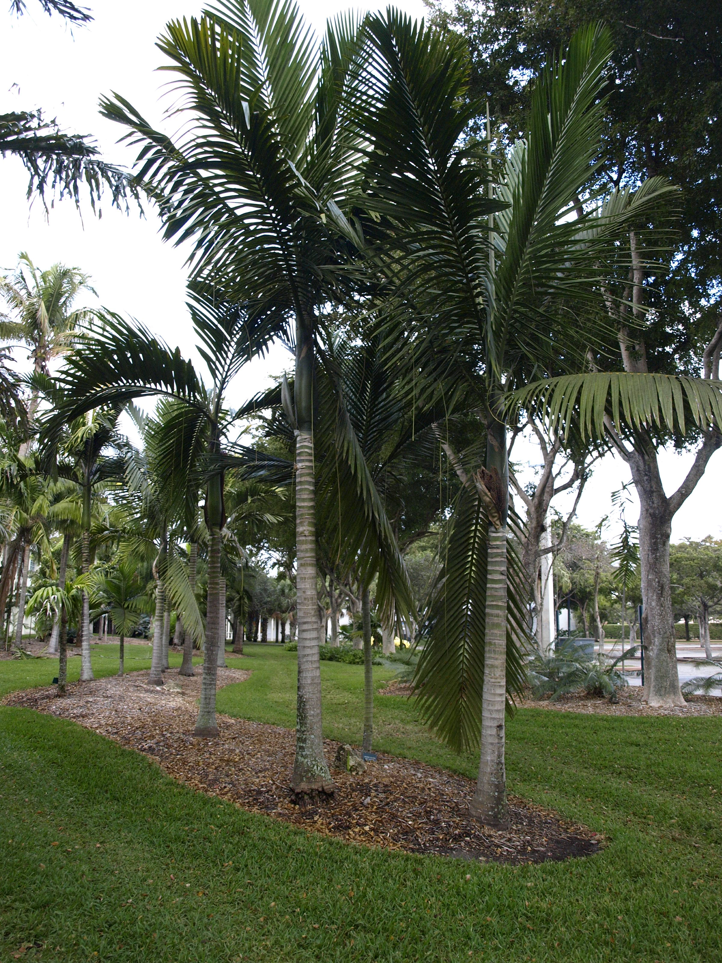 Kentiopsis oliviformis, University of Miami campus, Miami, FL, USA.